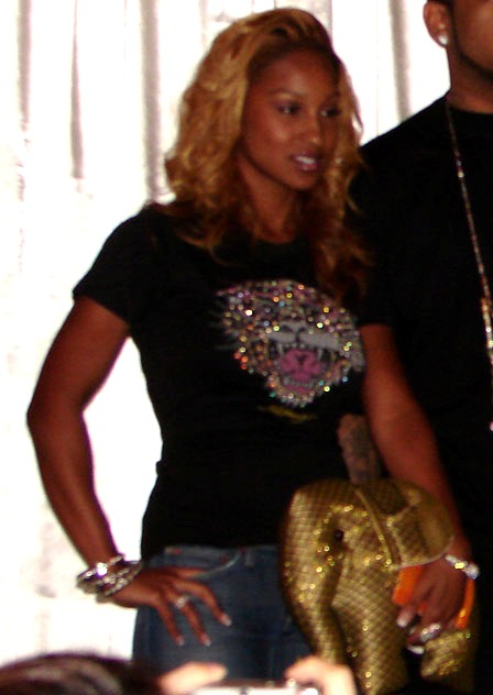 Olivia (cropped)